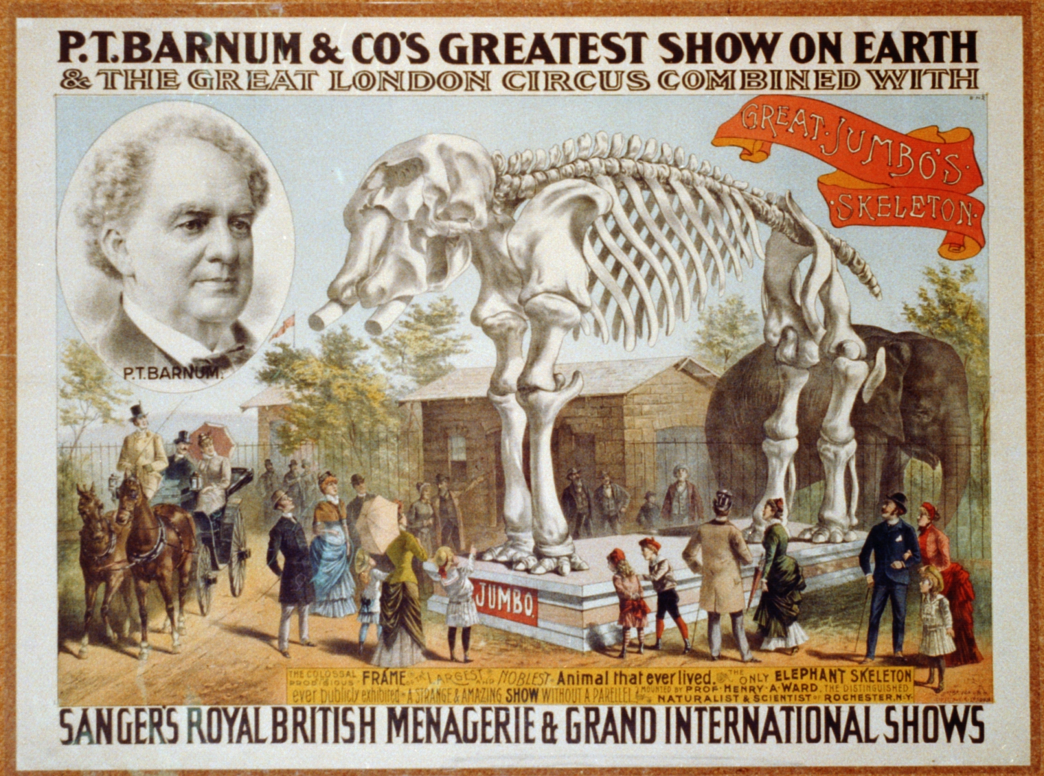 Jumbo - P. T. Barnum poster featuring Jumbo's skeleton.